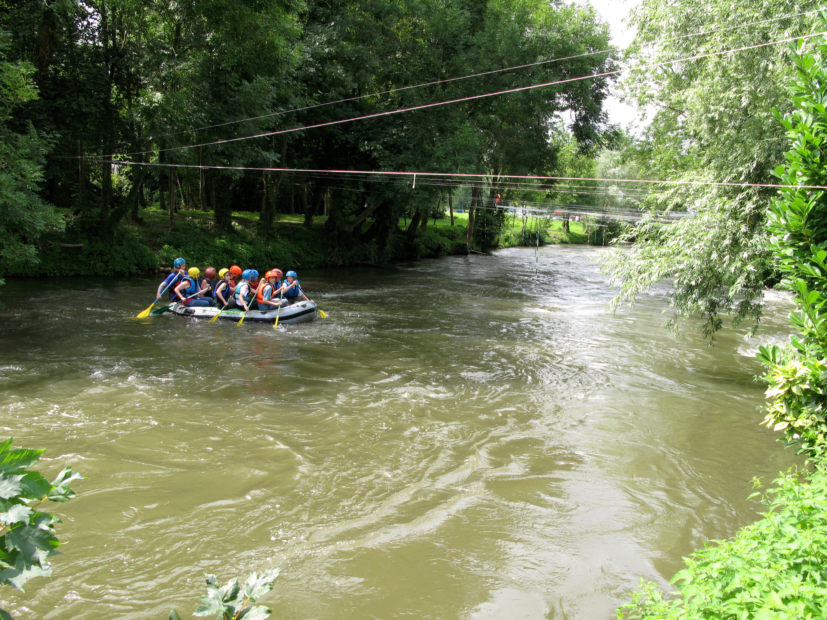 Picquigny (Somme, France) - Rafting. .